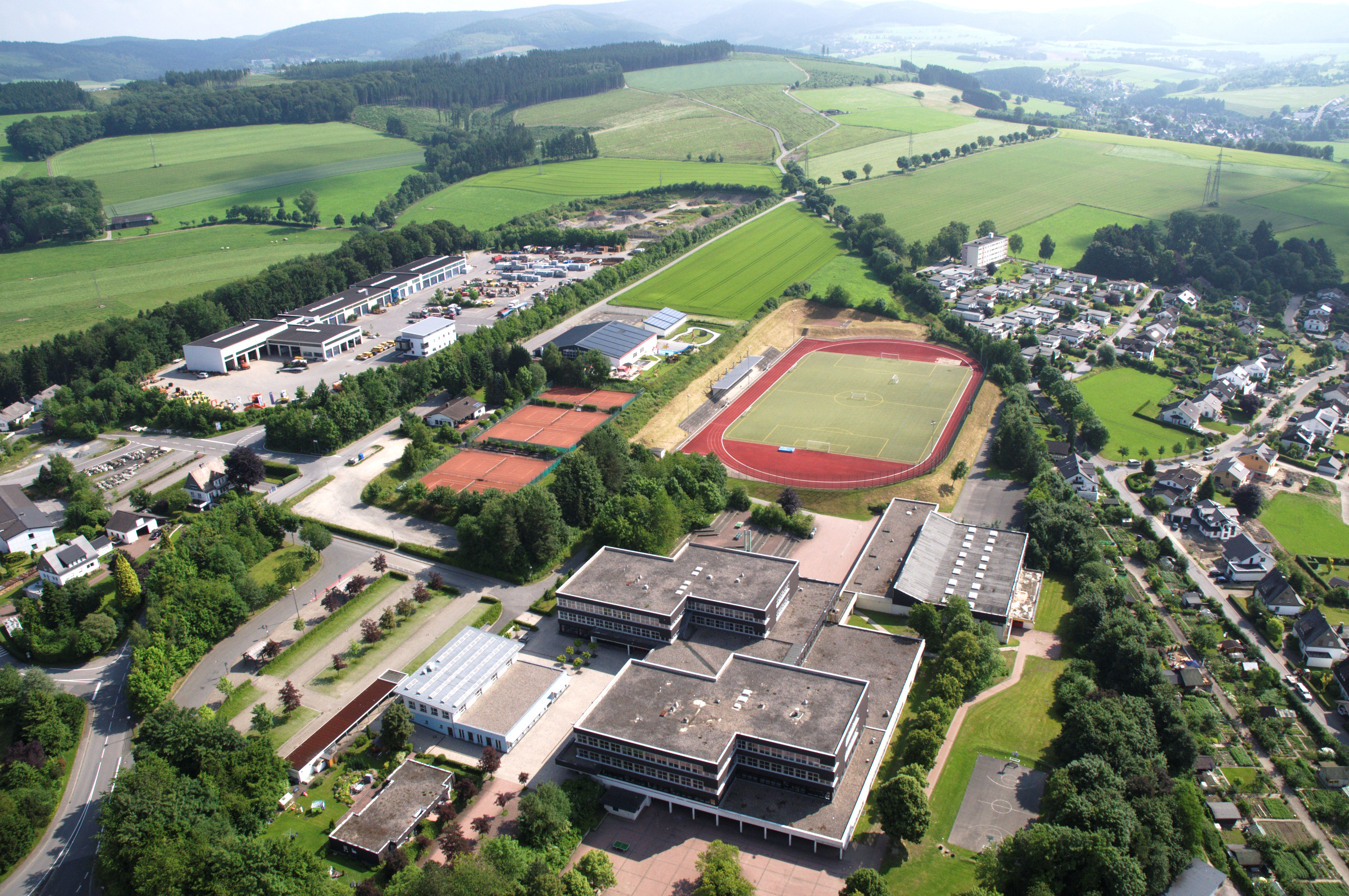 Fotoflug Sauerland-Ost, Schmallenberg, Schulzentrum und Sportplatz sowie Fa. Feldhaus The making of this document was supported by the Community-Budget of Wikimedia Germany.